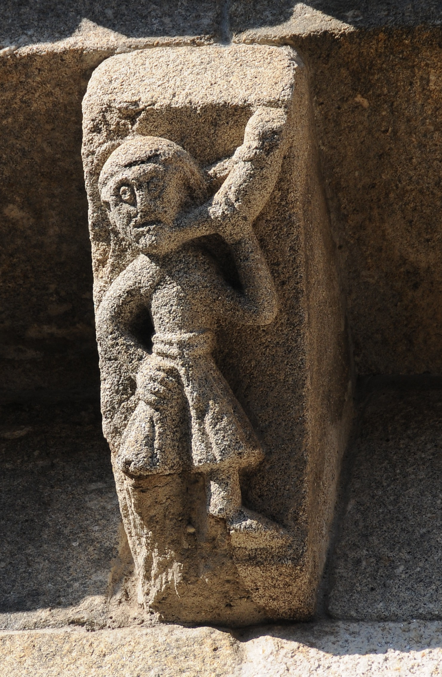 Exterior of the Cathedral of Braga, ortugal